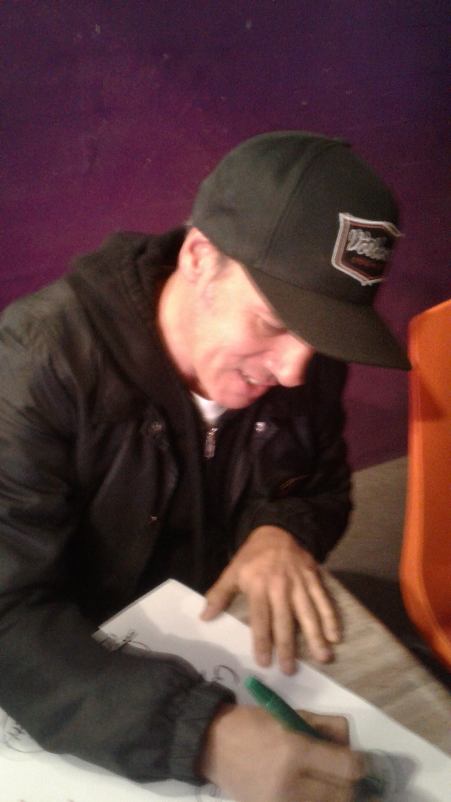 Gonzalo Farafán (de G¤3) en una forma de autógrafo, a previos días del Día del Rock Peruano.